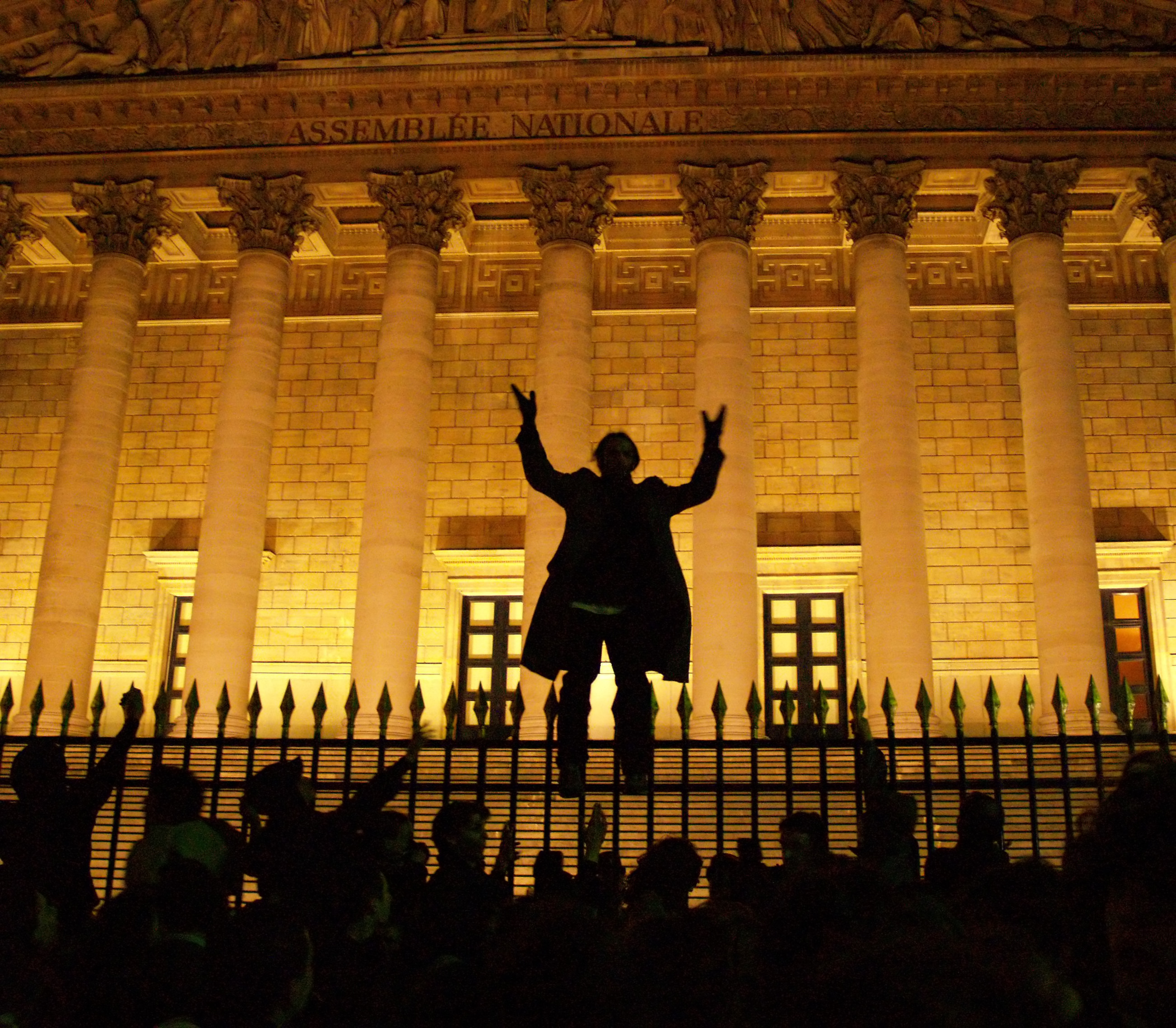 Street protest against the contrat première embauche before the National Assembly in Paris, France, on March 31, 2006.